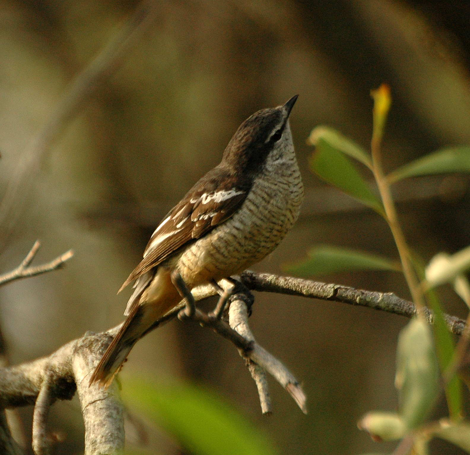 Varied Triller Lalage leucomela Inskip Pt, SE Queensland, Australia